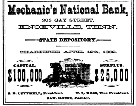 Advertisement in the 1884 Knoxville, Tennessee, USA, city directory, for the Mechanics' National Bank, which operated in the city from 1882 until 1922.